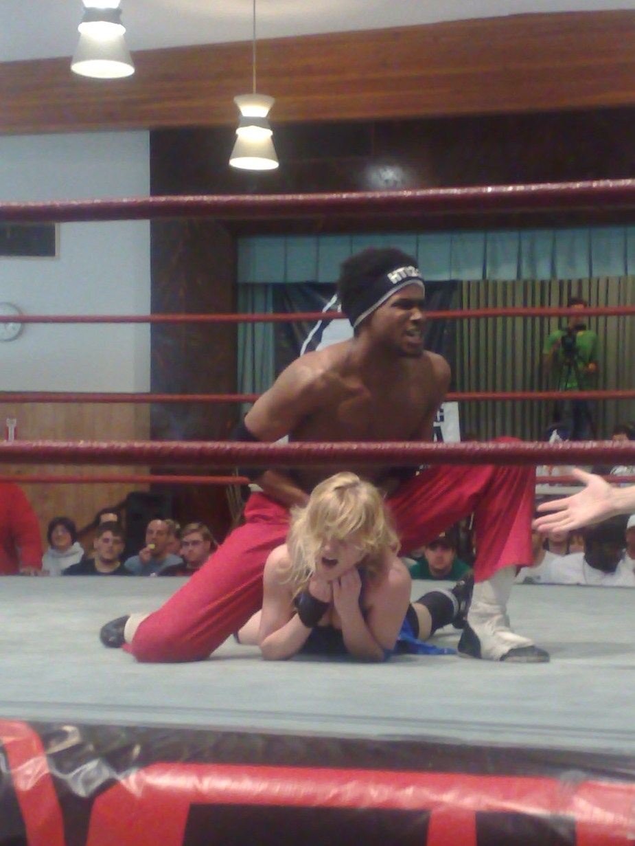 Professional wrestler Human Tornado (real name Craig Williams) attacks female professional wrestler and valet Candice LaRae after a match at Pro Wrestling Guerrilla's ¡Dia de los Dangerous! show on February 24, 2008.